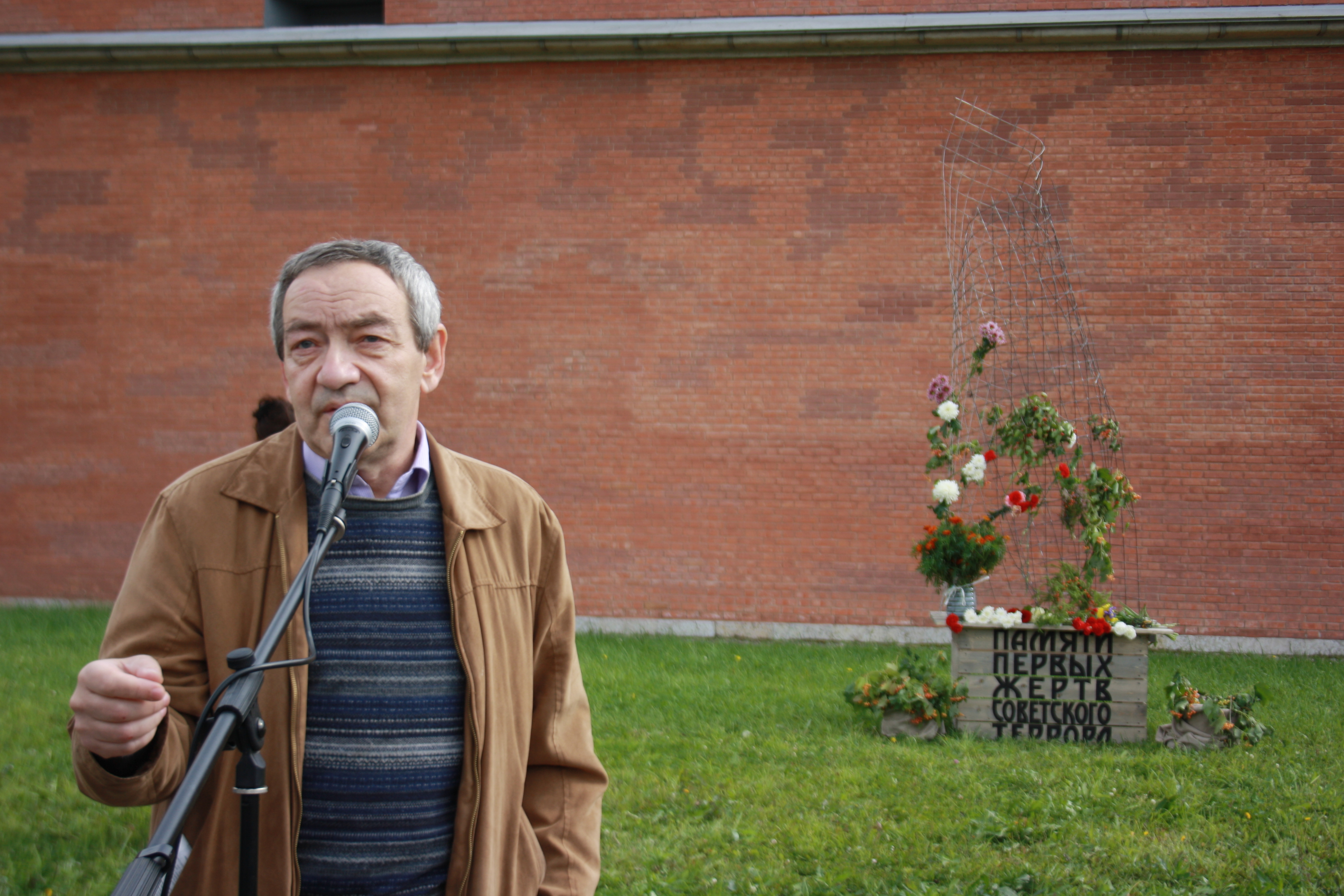 Co-chair of "Memorial" society (Saint Petersburg) Alexander Daniel on street meeting near Golovkin Bastion of Peter & Paul Fortress.